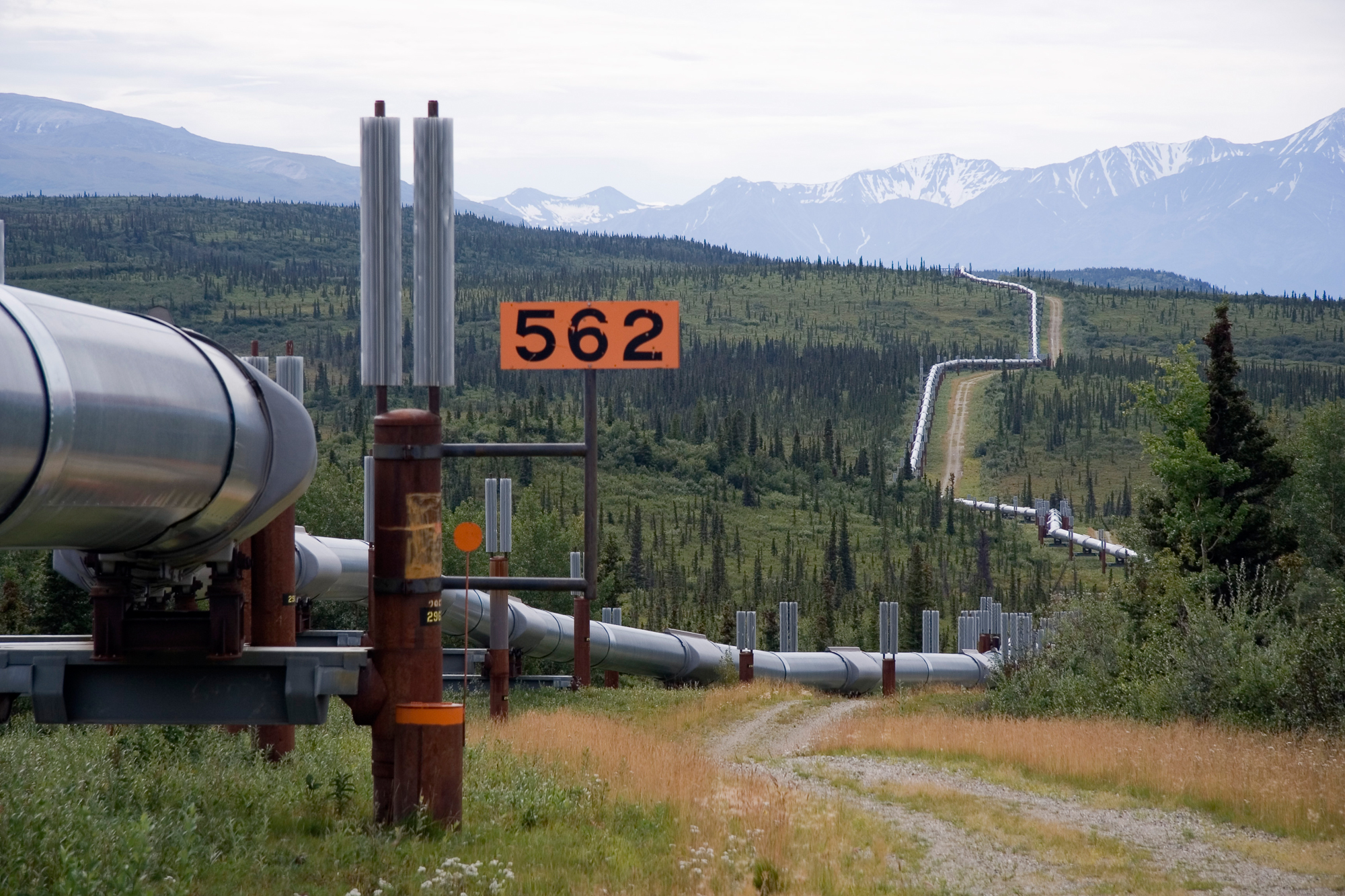 Trans-Alaska Pipeline System. It runs from the Arctic Ocean to the Gulf of Alaska at Valdez 800 miles (1,300 km)